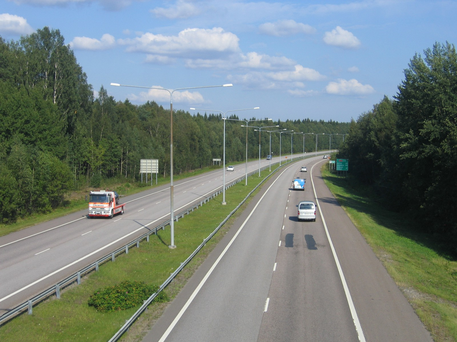 Porvoonväylä motorway (national road 7) eastwards at Jakomäki in Helsinki, Finland.